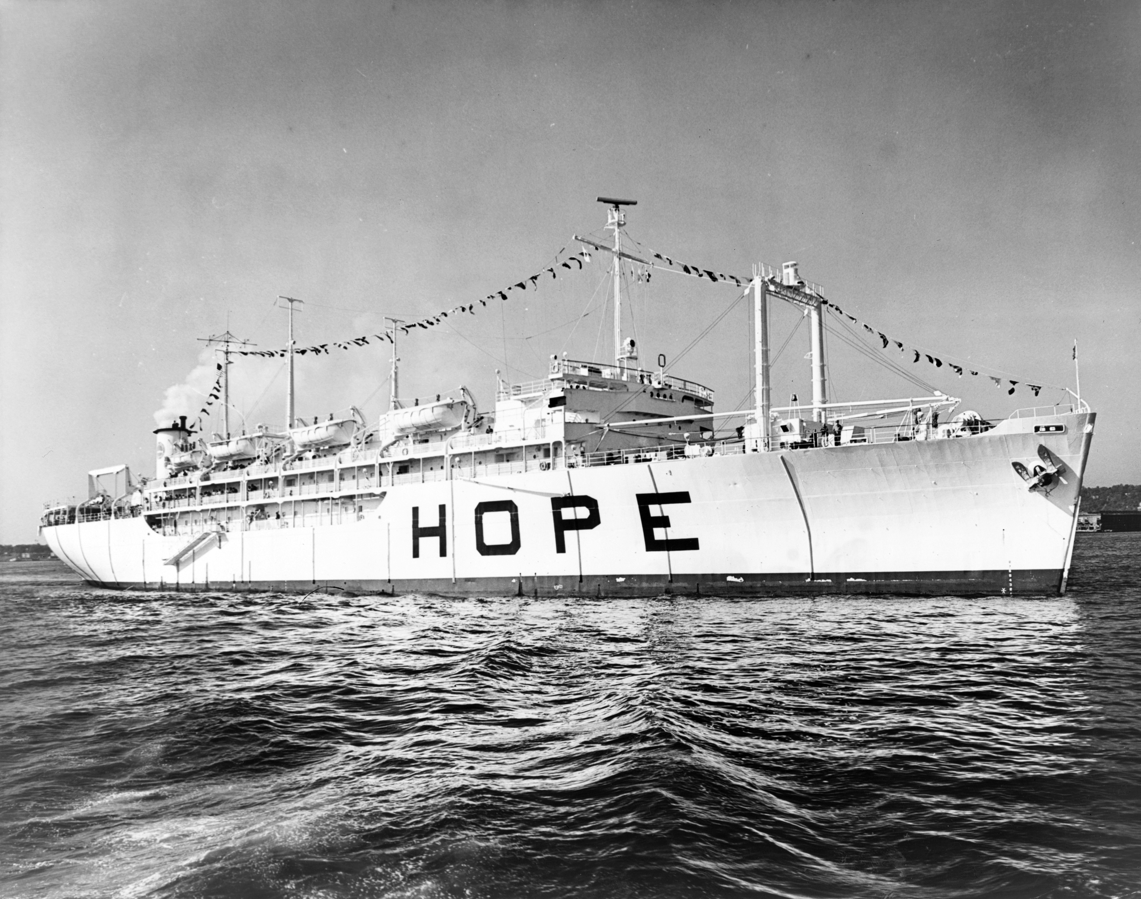 Project HOPE's hospital ship, the S.S. Hope on 16 September 1964. The SS Hope had originally been in service as the U.S. Navy hospital ship USS Consolation (AH-15) between 1945 and 1955. On 16 March 1960 she was chartered to the "People to People Health Foundation" and renamed SS Hope, an acronym for "Health Opportunity for People Everywhere". She sailed later in 1960 on her first cruise to bring modern medical treatment and training to underdeveloped areas of the world and served in this capacity for fourteen years, until 1974.